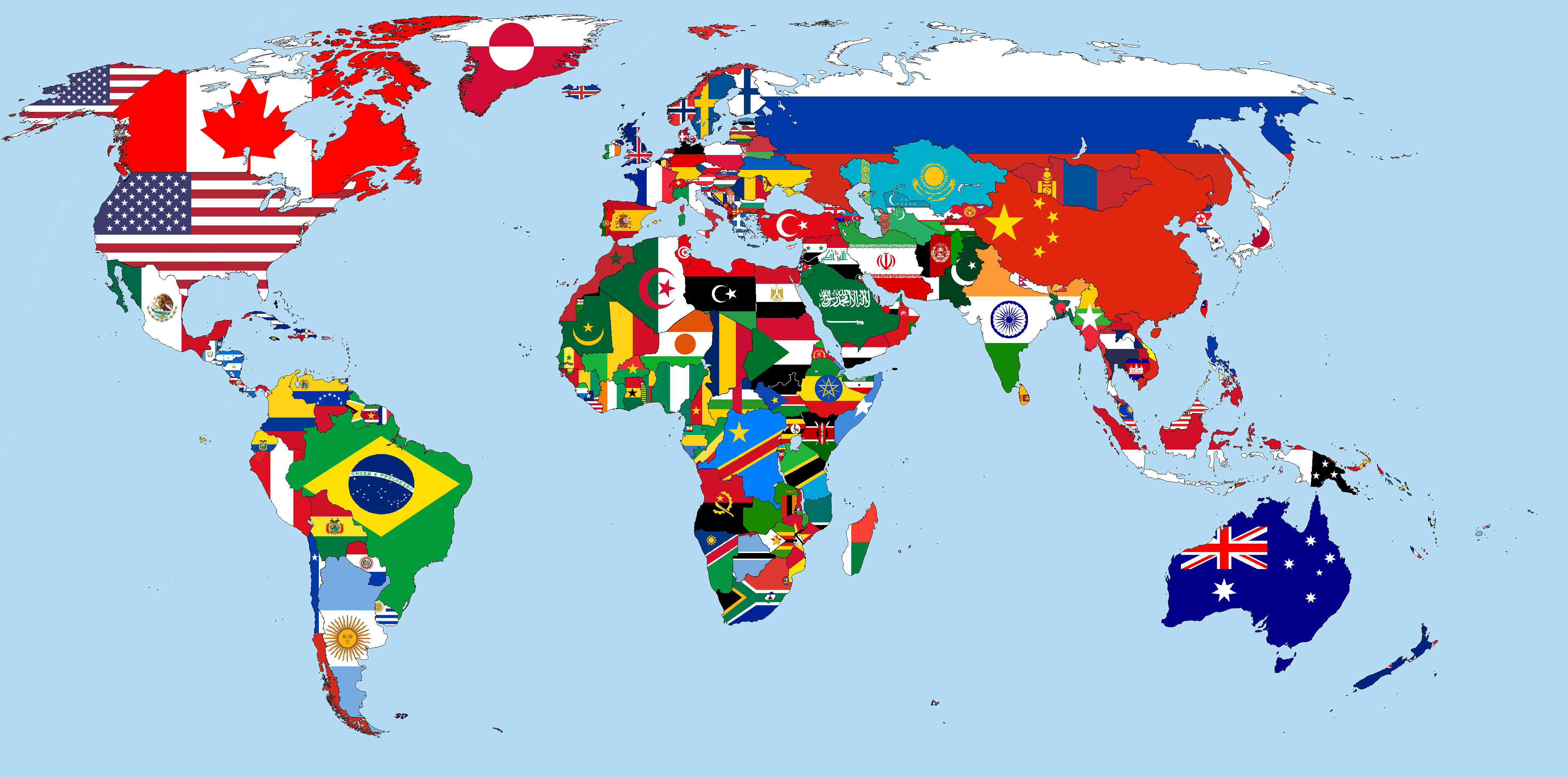 Flags_map_2012 Flag maps of the world for historical use 1789 · 1900 · 1908 · 1914 · 1930 · 1935 · 1938 · 1942 · 1965 · 1970 · 1972 · 1974 · 1989 · 1990 · 1991 · 1992 · 1993 · 2010 · 2012 · 2013 · 2015 · 2016 · 2017 · 2018 (this template: • view • discuss )